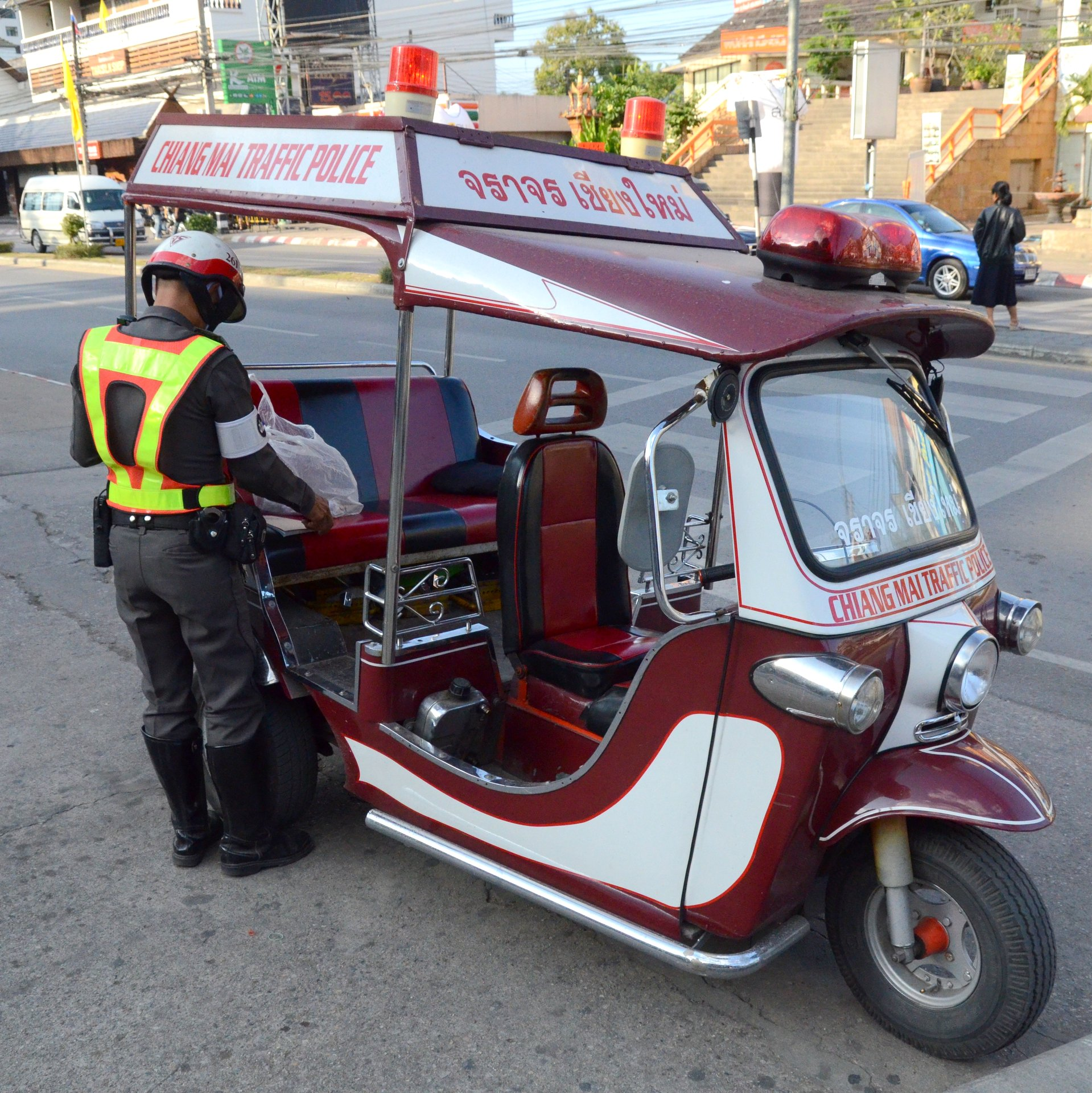 A retro-styled tuk tuk of the Thai traffic police in Chiang Mai.